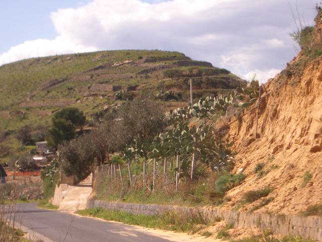 monte San Mauro, Caltagirone, Italia